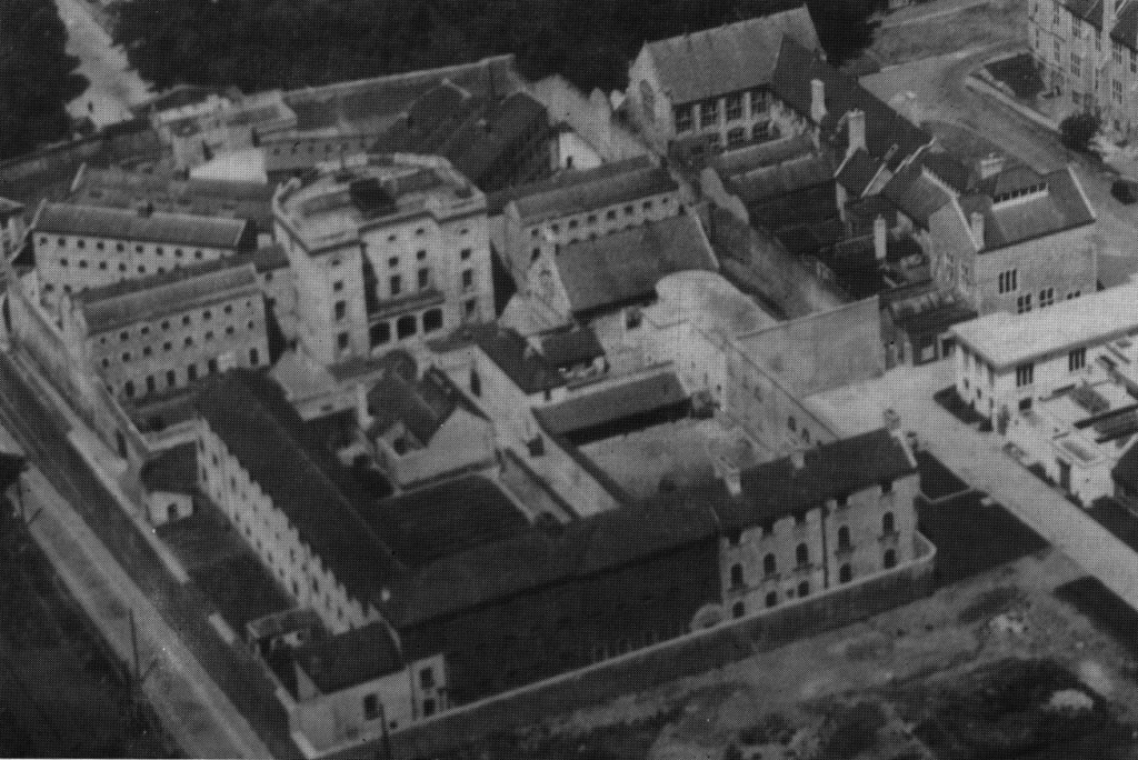 The Cork County Gaol (built 1814 - 1818) is the semi-circular building in the center of the photo.